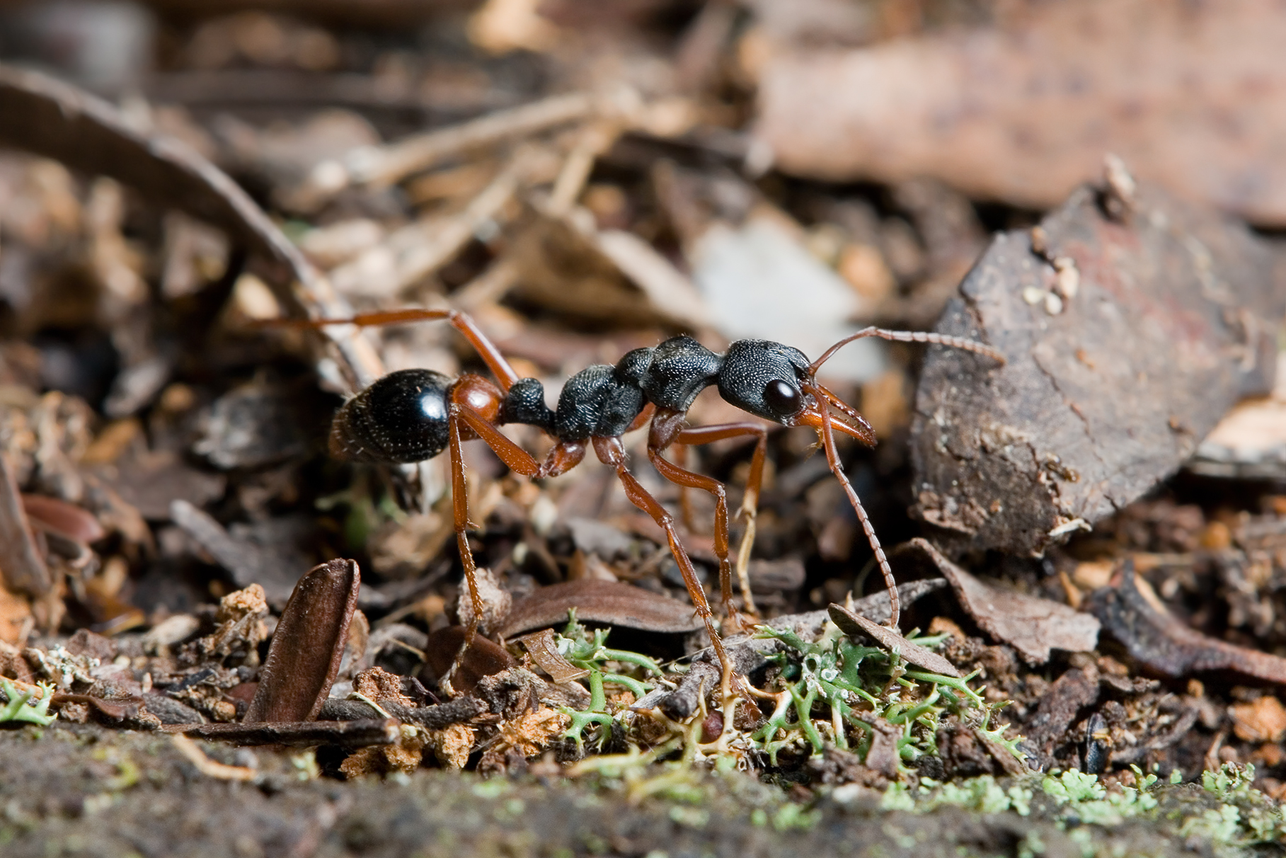 Tasmanian Inchman (Myrmecia esuriens) Camera data Camera Canon EOS 400D Lens Tamron EF 180mm f3.5 1:1 Macro Flash Umbrella Right Focal length 180 mm Aperture f/10 Exposure time 1/200 s Sensivity ISO 400